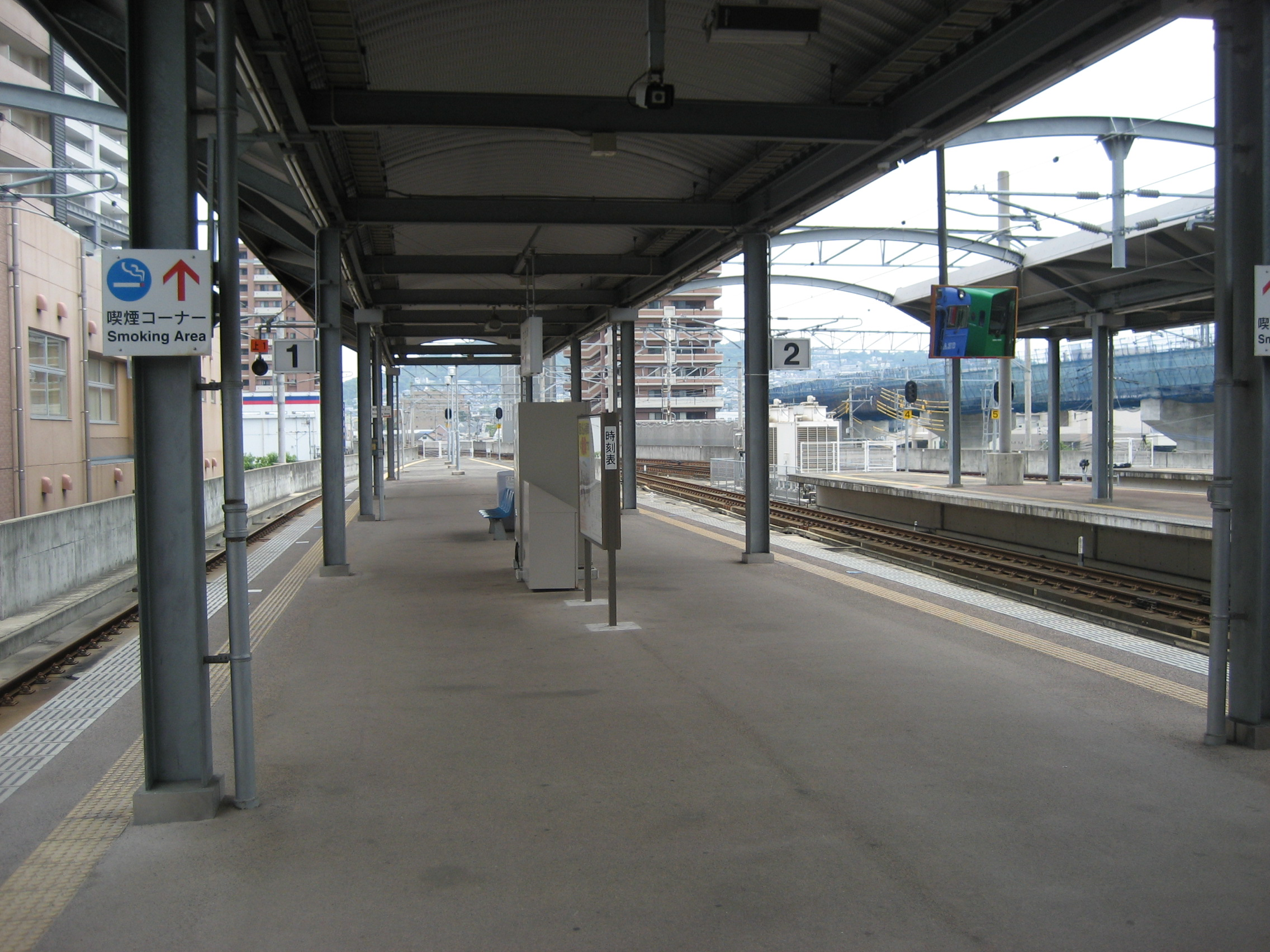 JR Sasebo Station